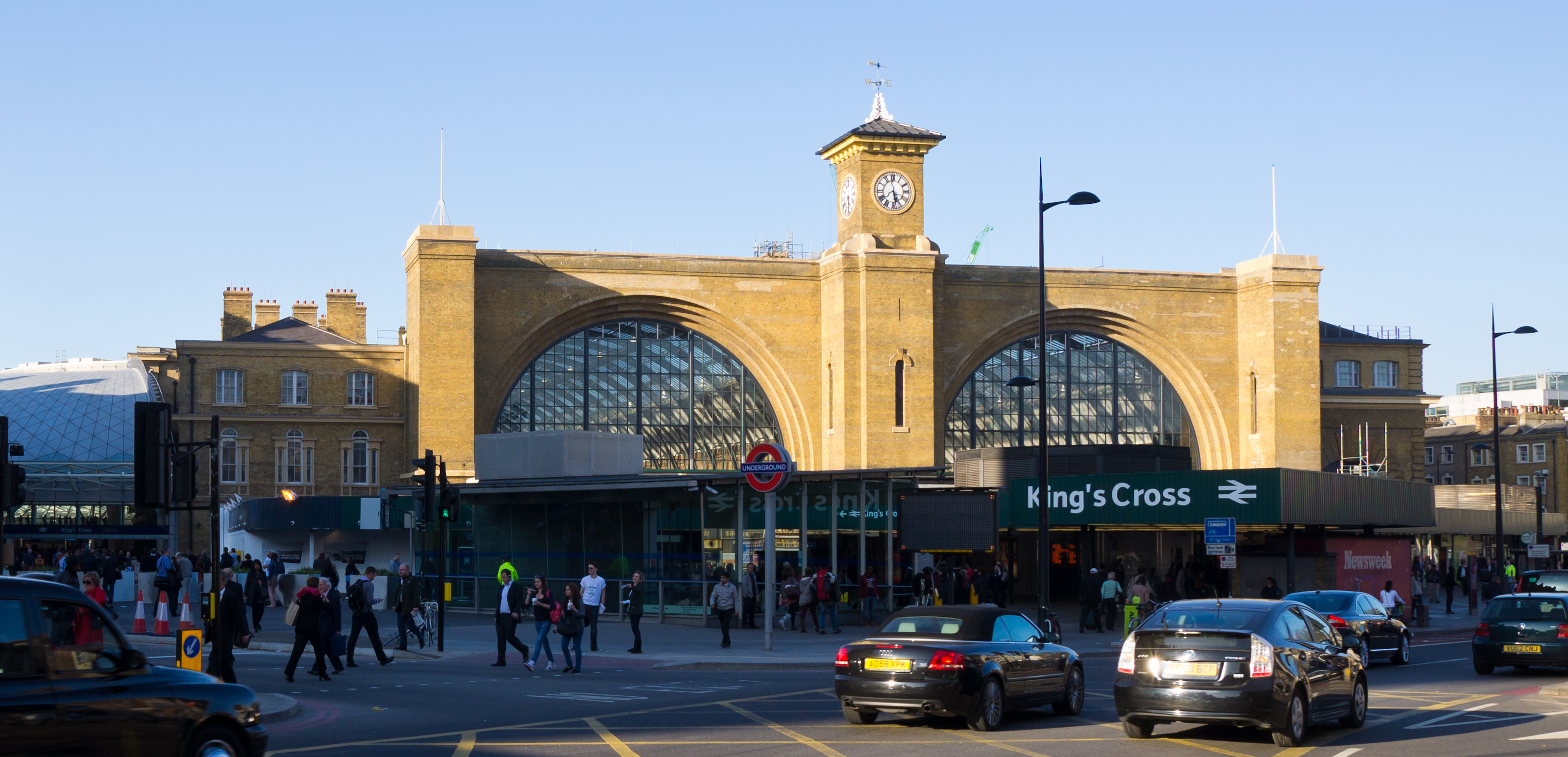 The front of London King's Cross railway station on 26 March 2012. On the left (west side) is the domed roof of the newly opened departures concourse.The glass windows and glass roof of the main building have been replaced, letting in more light. The single-story extension to the front of the building currently serves as the arrivals concourse but previously handled both arrivals and departures. The extension is due to be demolished later this year.